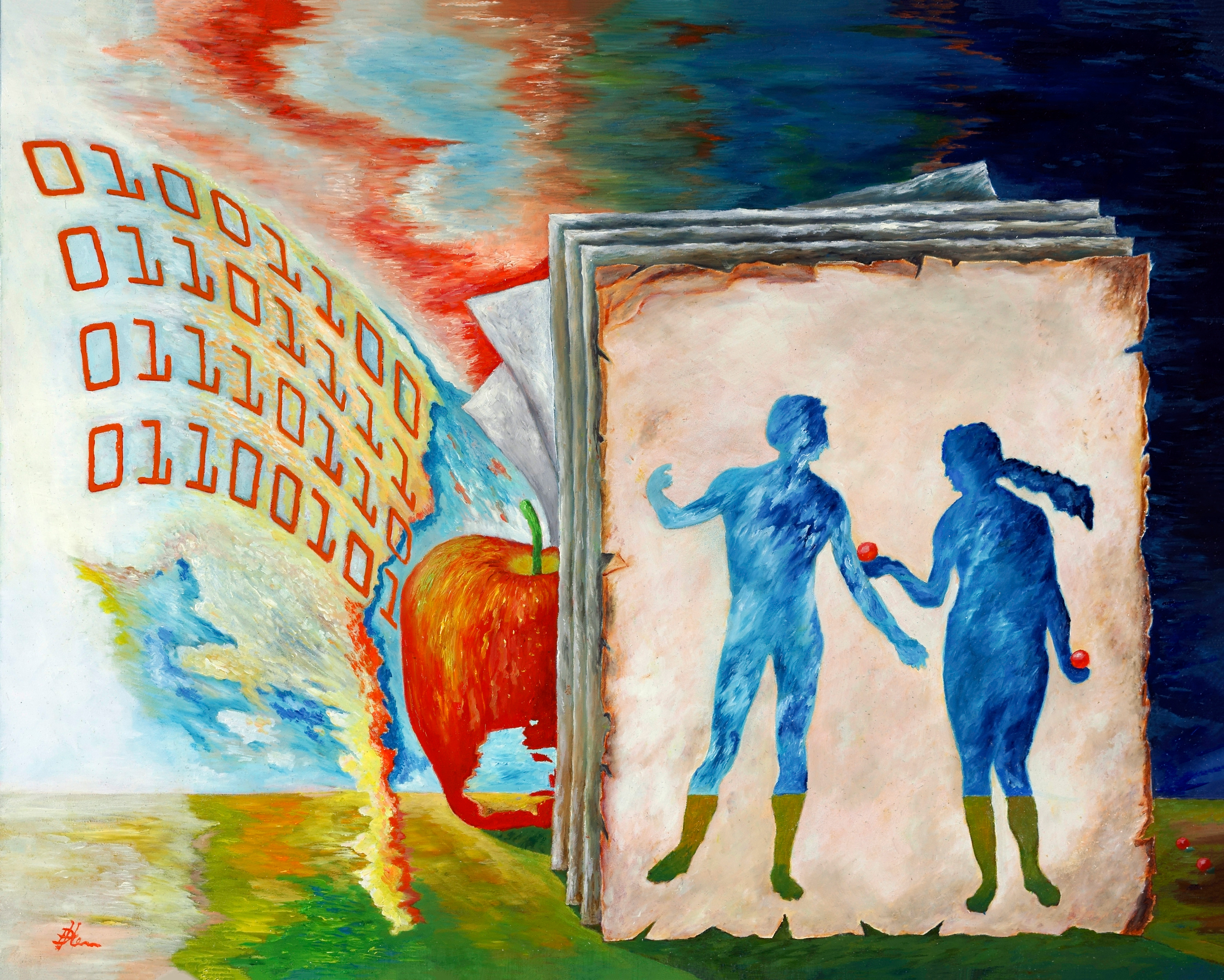 Knowledge Proliferation - Oil on panel 16 x 20 in. (40.64 x 50.8 cm.) Adam ate the forbidden fruit. It took many generations for the current knowledge to evolve. As we moved away from “dark ages” the skies brightened and finally, an explosion of knowledge, and a full clarity of all things. The age of Technology has arrived. Inspired by an etching of Albrecht Dürer.